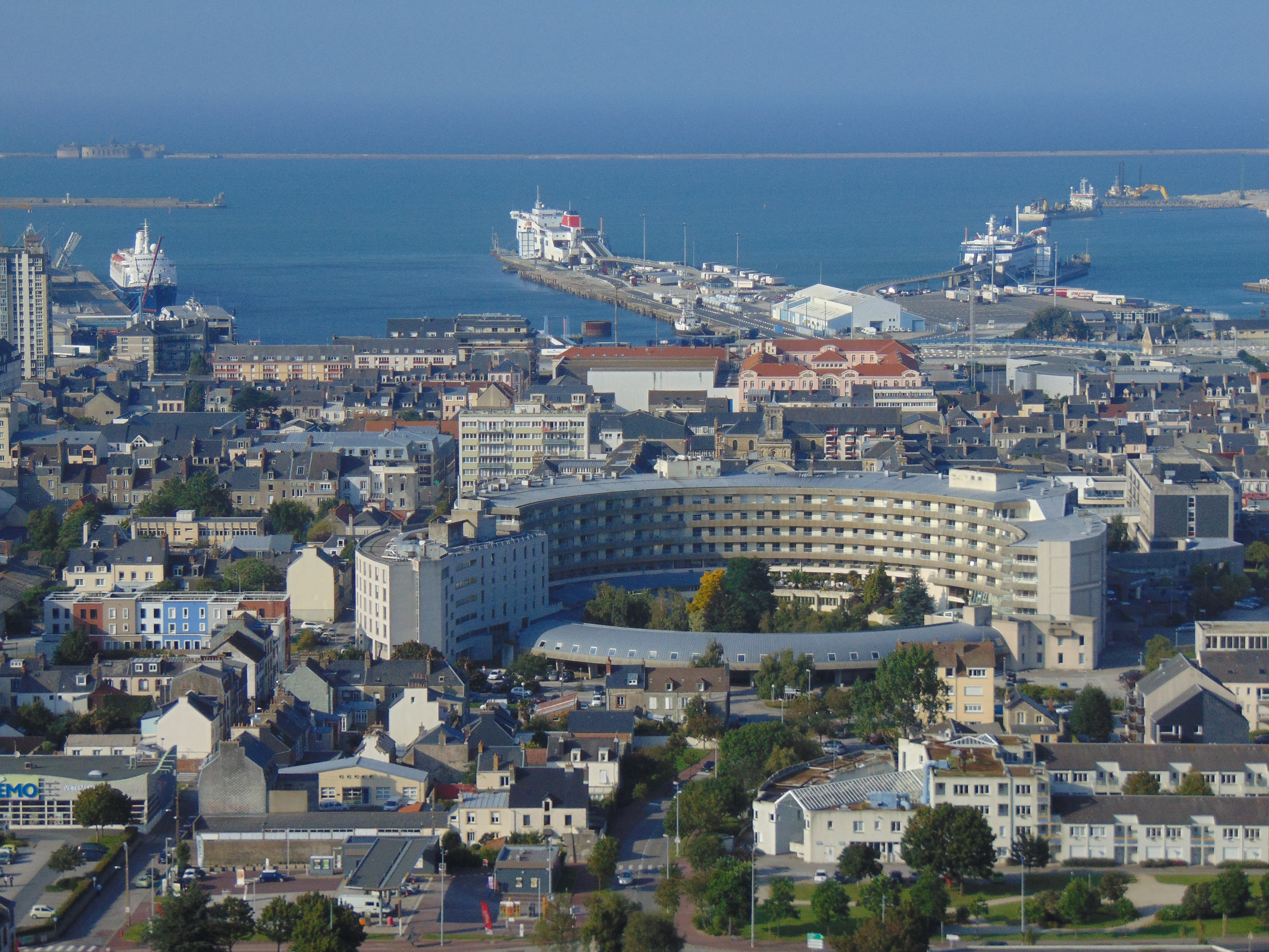 Louis Pasteur Hospital seen from the Montagne du Roule